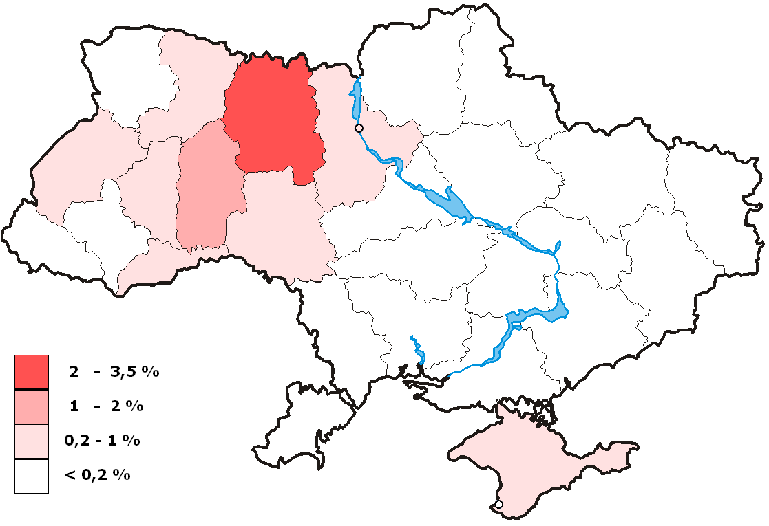 Polish minority in Ukraine according to the All-Ukrainian Population Census, 2001